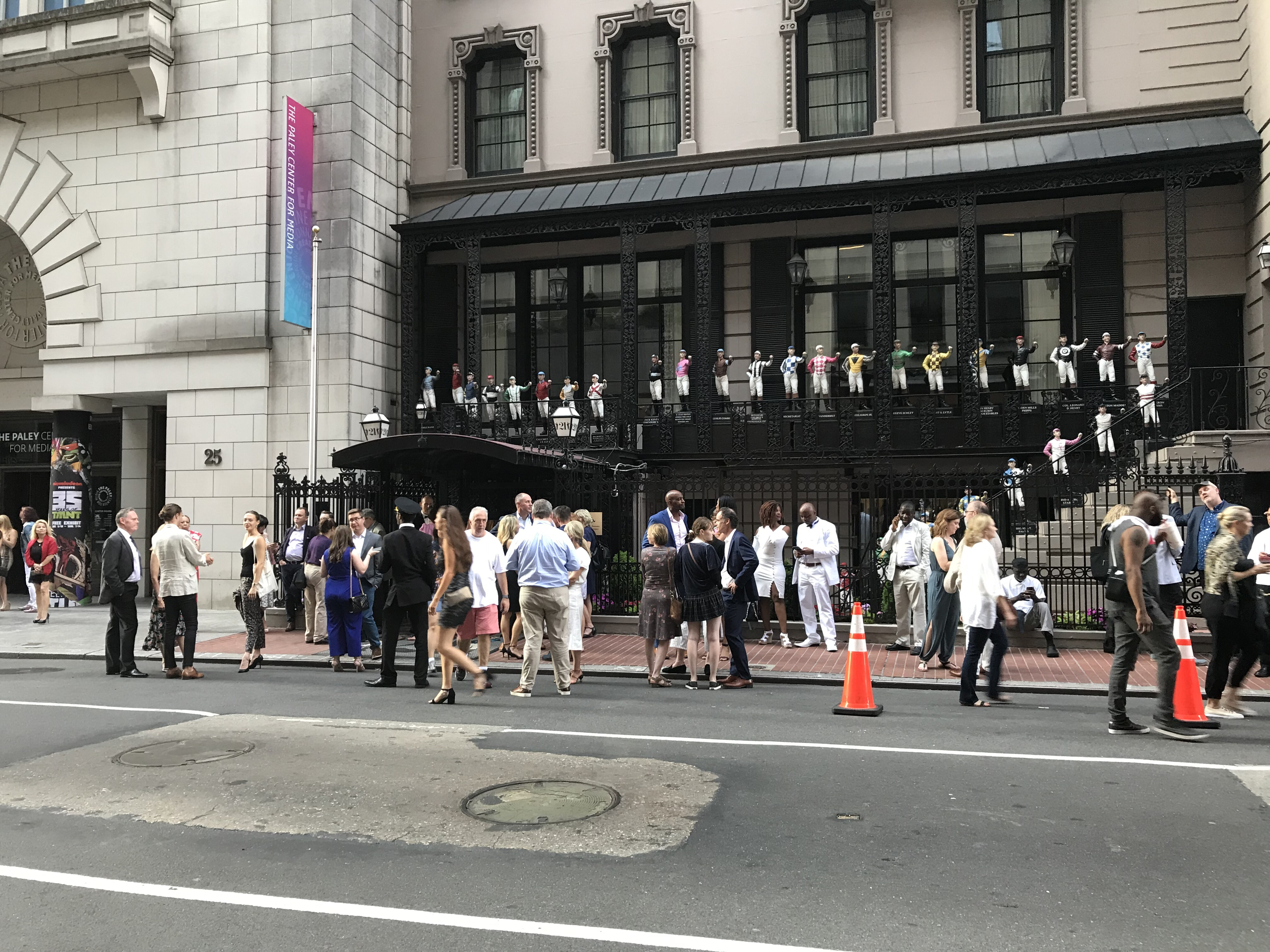 During the Manhattan blackout of July 2019, the 21 Club lost power. Patrons mill around outside it. Photo taken 20 minutes after